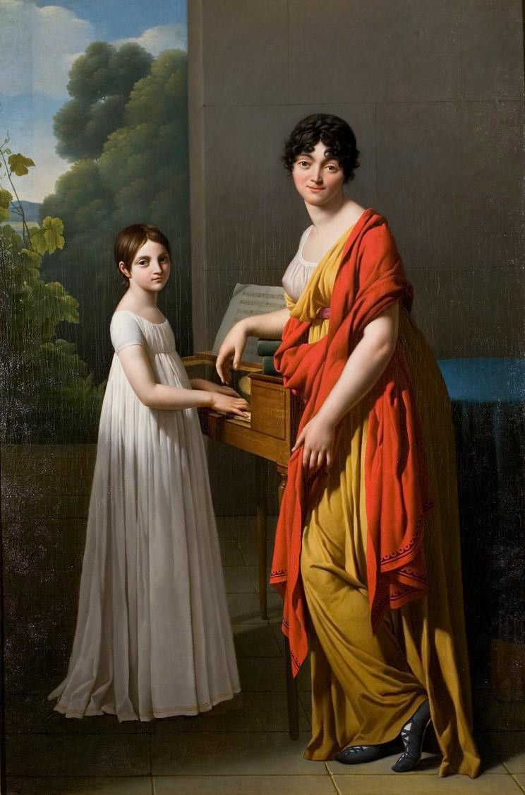 Portrait of Germaine Faipoult de Maisoncelle and her daughter Julie playing the Spinet (c. 1799). Germaine's husband, Guillaume-Charles Faipoult, was Minister of Finance of France in 1795 and represent France in Italy in 1796–99. Oil on canvas.